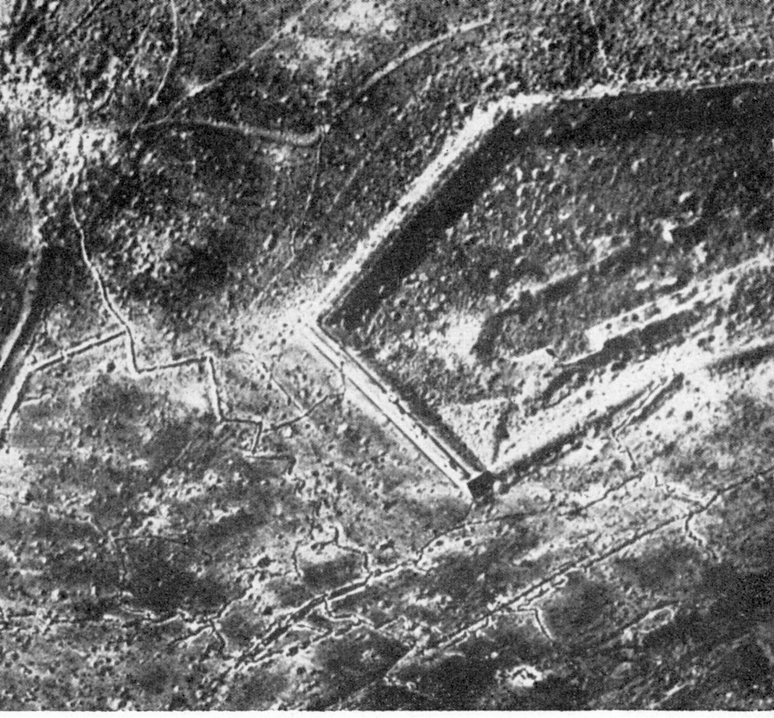 Aerial photograph of Fort Douaumont towards the end of 1916. North is approximately at top.